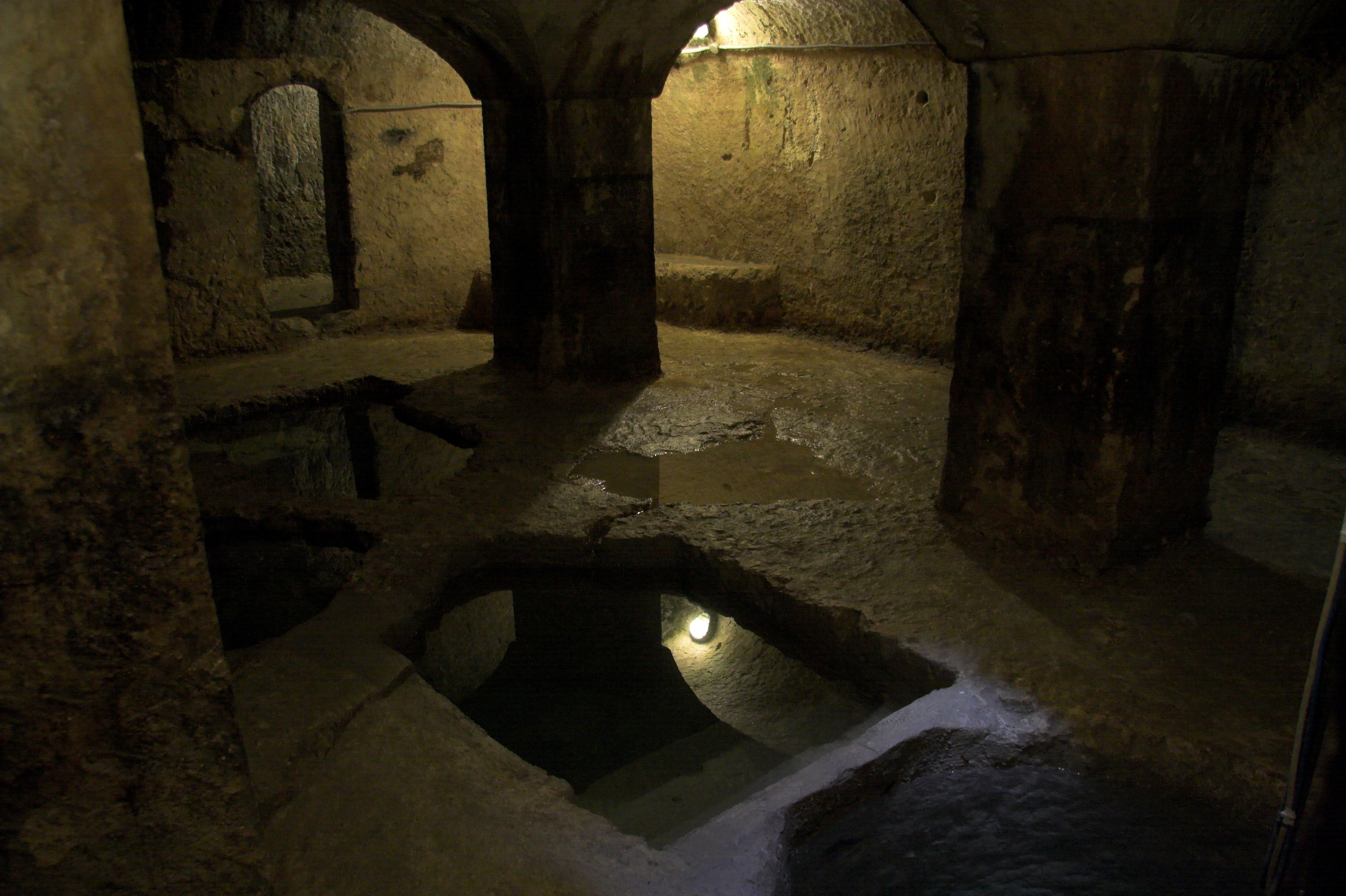 The underground purifying bath, the mikveh, of the Jewish community in Syracuse. From Roman times to the 15th century.